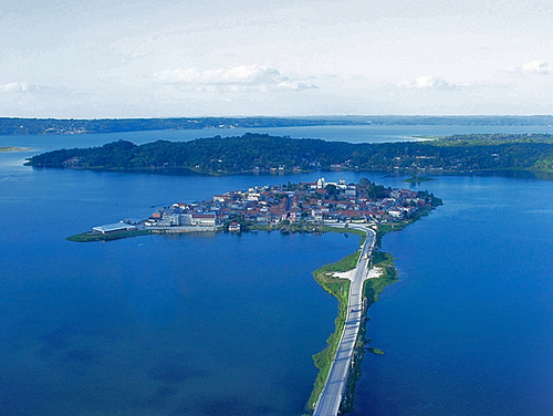 View of the island town of Flores, capital of the Petén department of Guatemala.